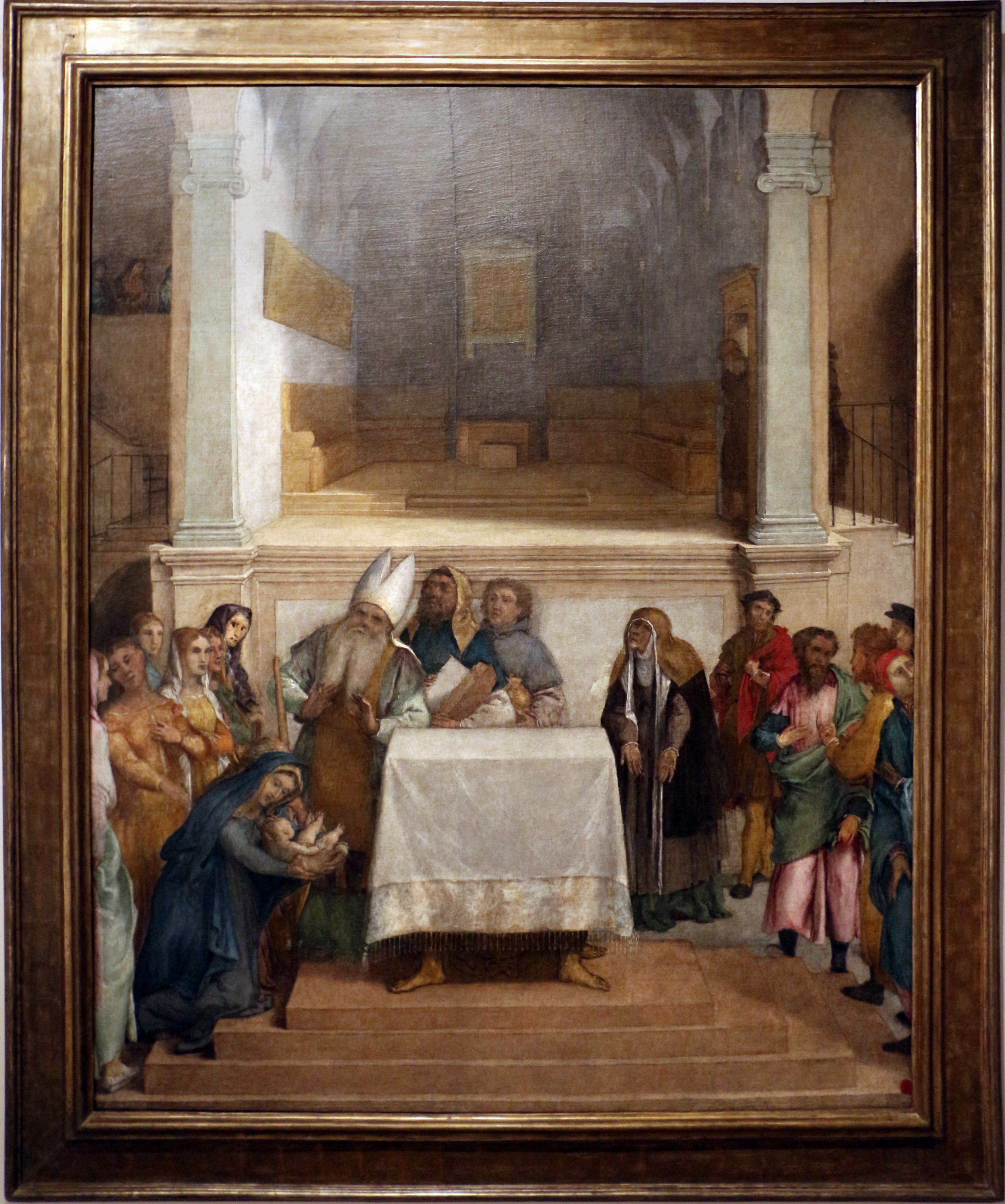 Museo della Santa Casa, Loreto